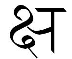 The क ष ligature in JanaHindi. Screenshot of a typeface glyph, converted into PNG with AdobePhotoshop.